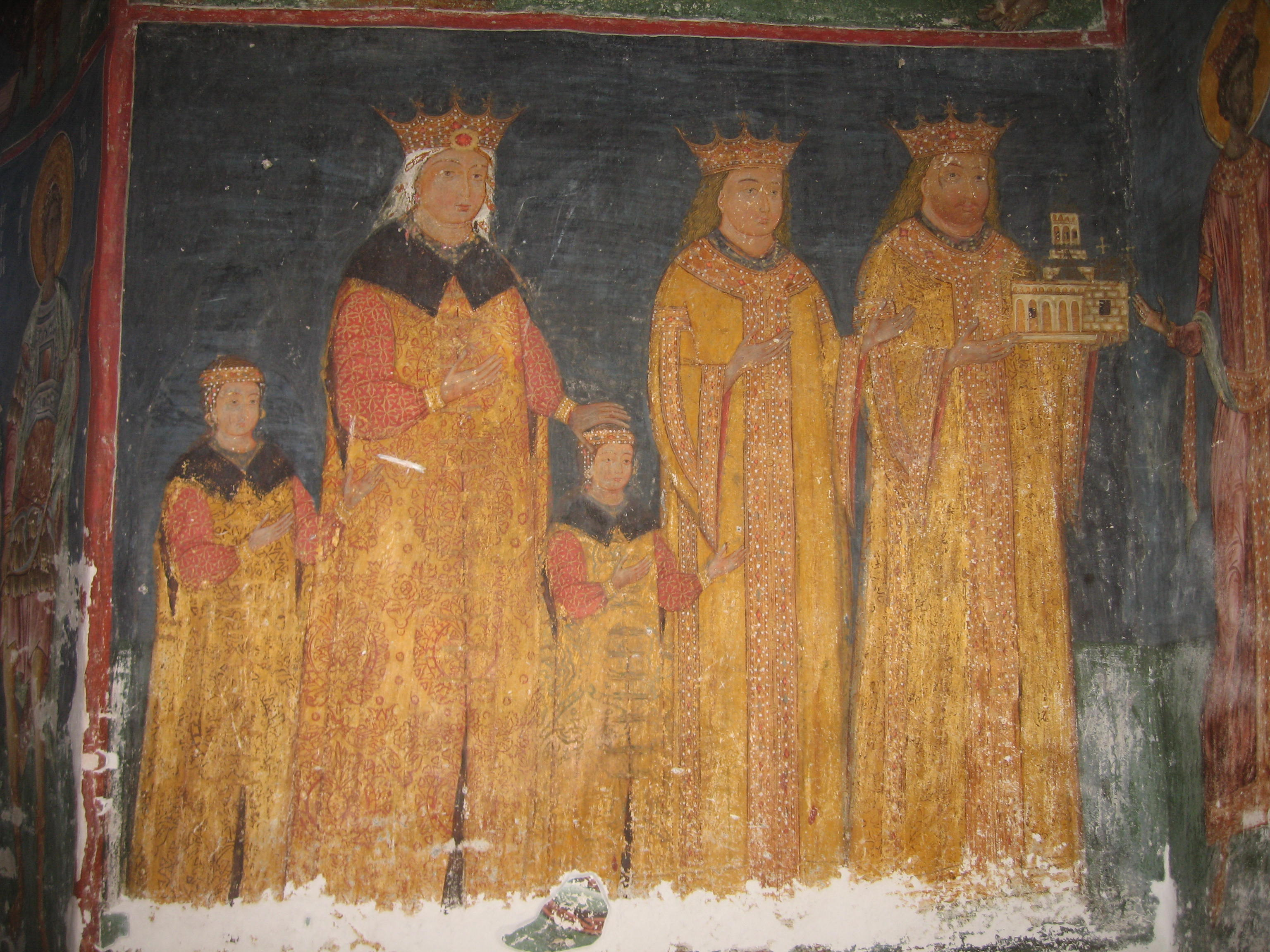 The Church of Pătrăuţi, Romania, UNESCO monument